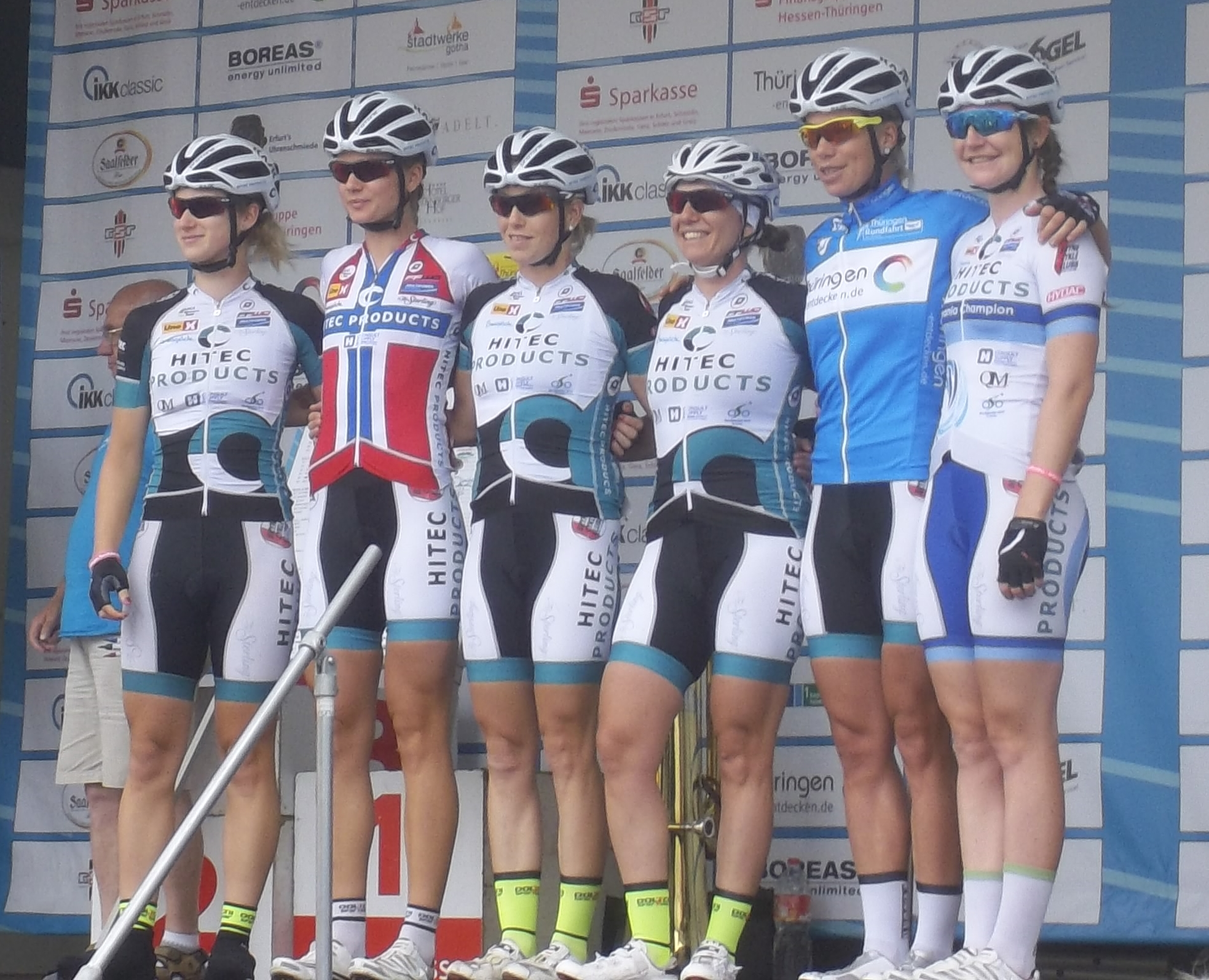 Team Hitec at the start of the stage 4 of the Thüringen Rundfahrt 2015